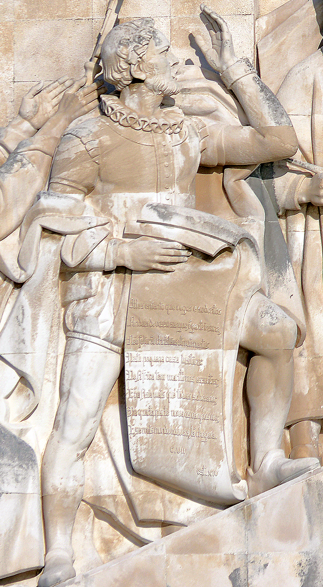 Effigy of Luís de Camões (c. 1524-1580), widely considered the greatest poet of the Portuguese language, in the Padrão dos Descobrimentos (Monument to the Discoveries), in Lisbon, Portugal.